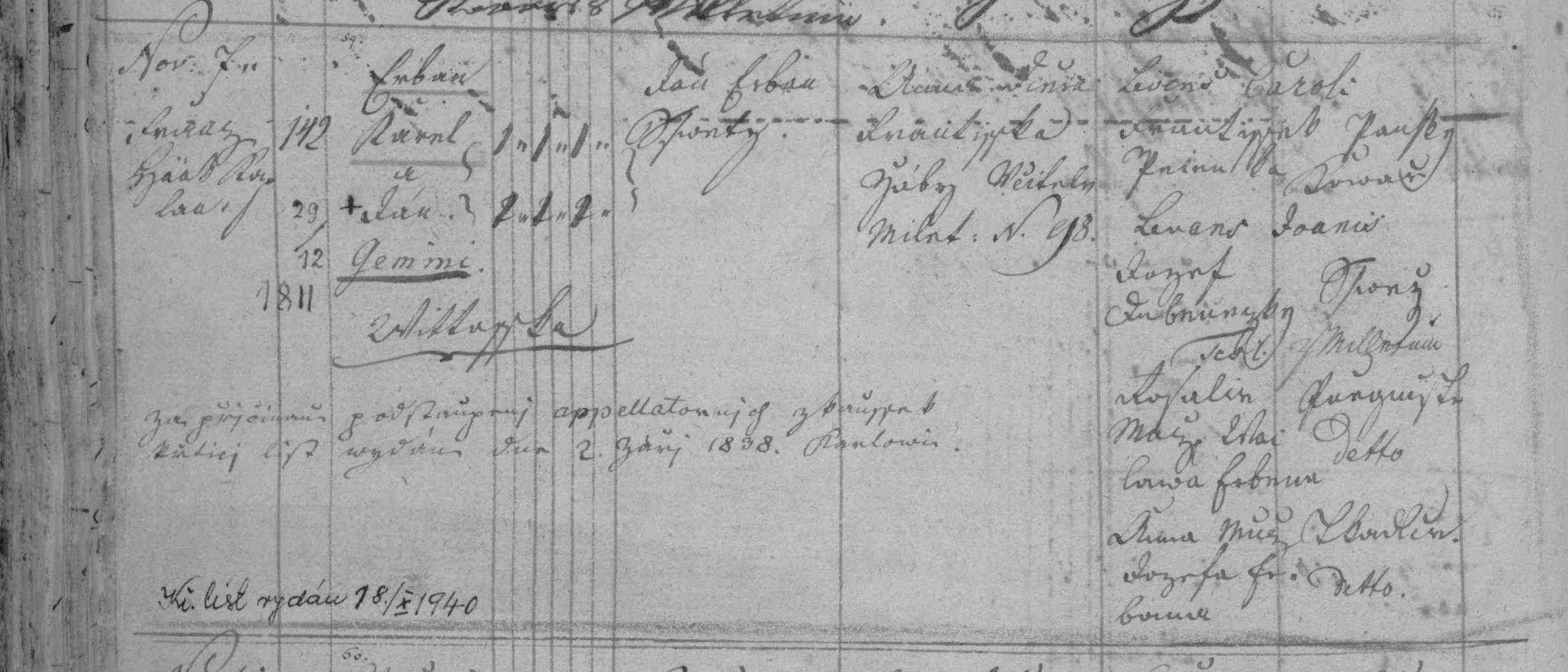 Birth record 1811, Karel Jaromír Erben